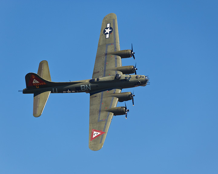 Thunderbird (B-17) making a low level pass at the Wings Over Houston air show, USA.